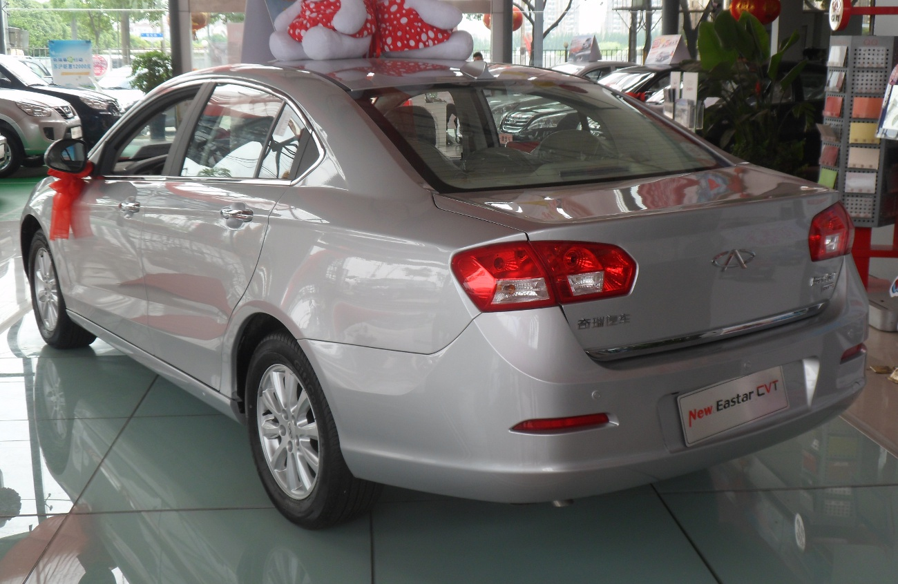 Chery Eastar II photographed in Shanghai, China.